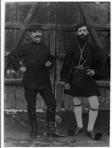 Nikostratos Kalomenopoulos and Dionisios Venoukas